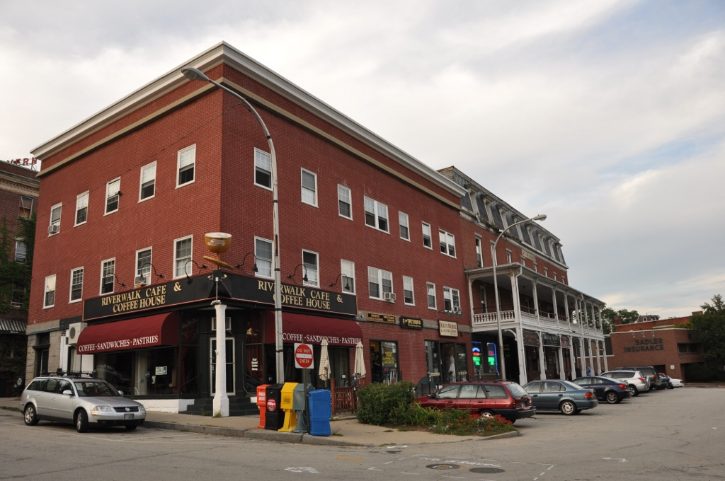 Railroad Square in Nashua, New Hampshire, located in the Nashville Historic District.